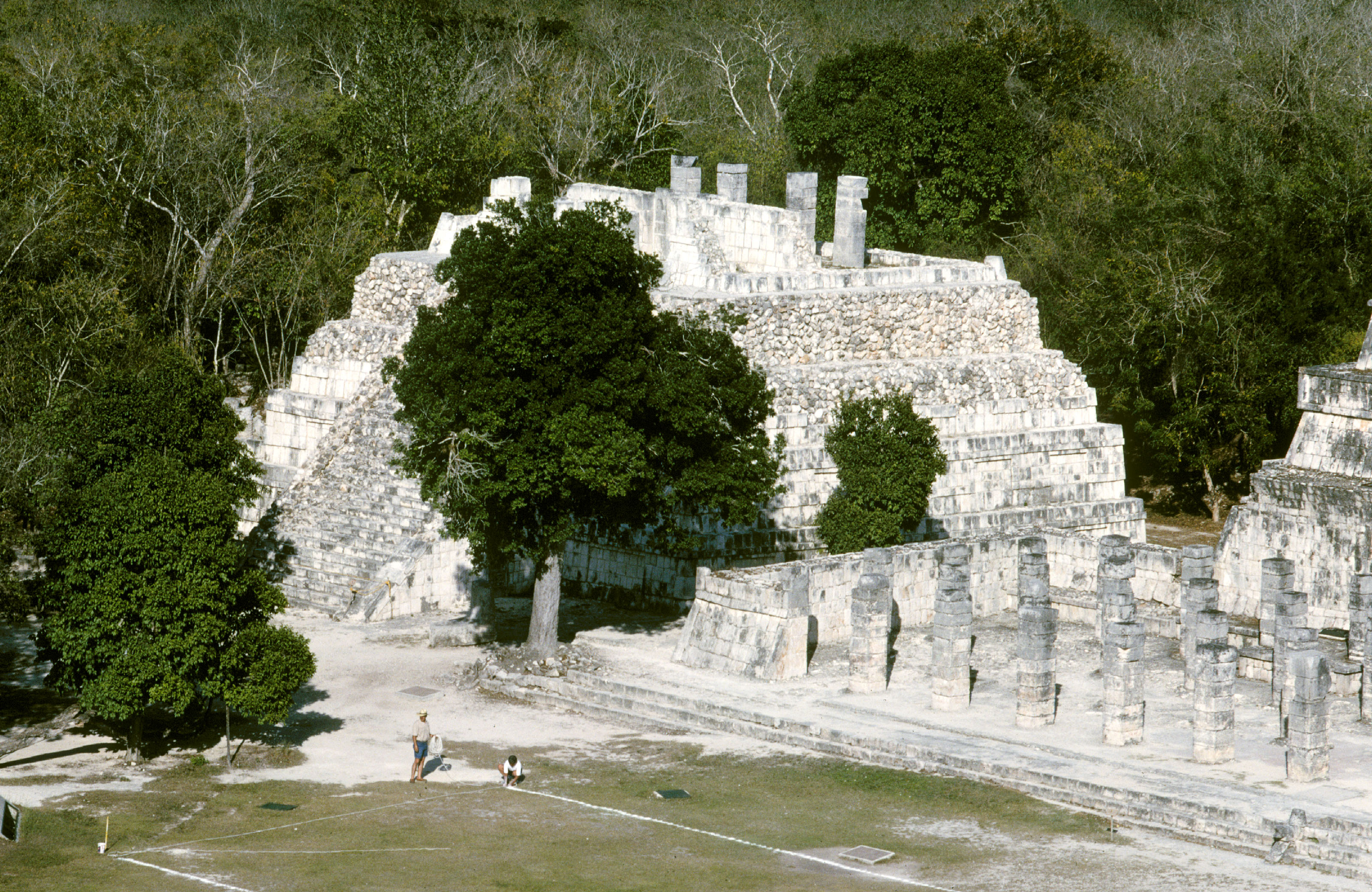 Chichen Itza, Yucatan, Mexico: Templo de las mesita